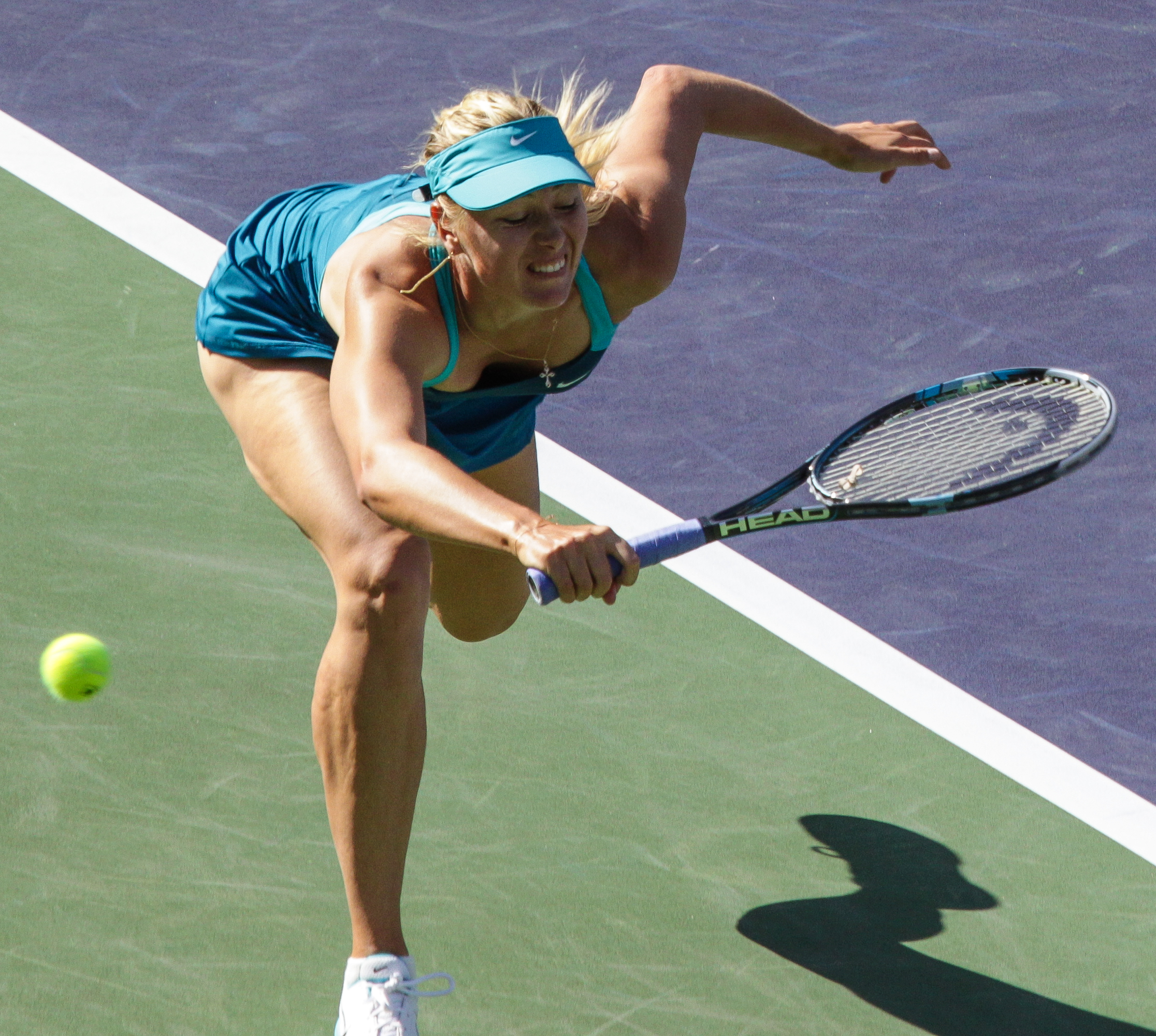 Woops, missed it! A swing and a miss from Sharapova in Indian Wells.